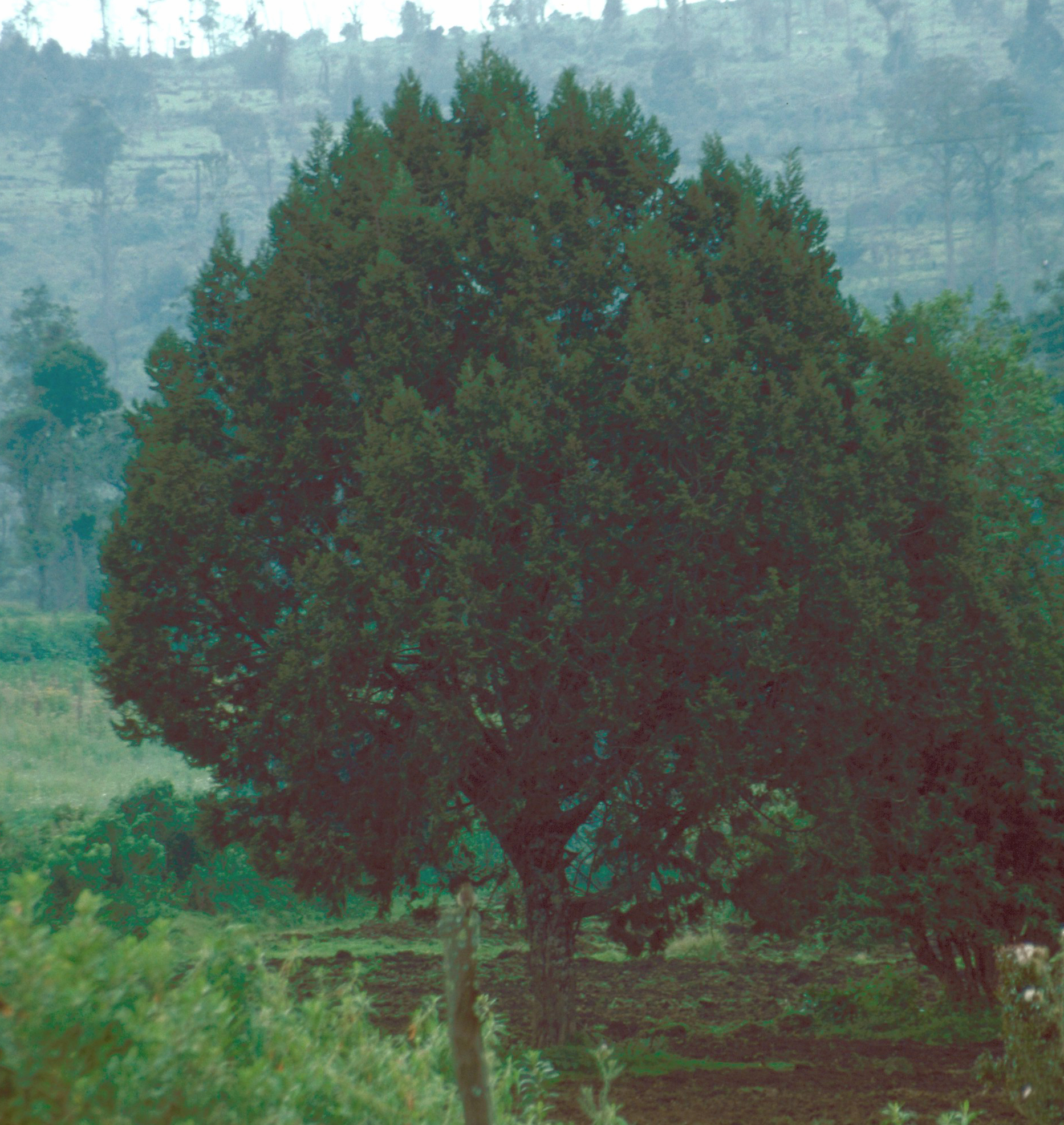 Juniperus procera tree. Aruba, Tsavo East reserve, southeast Kenya.